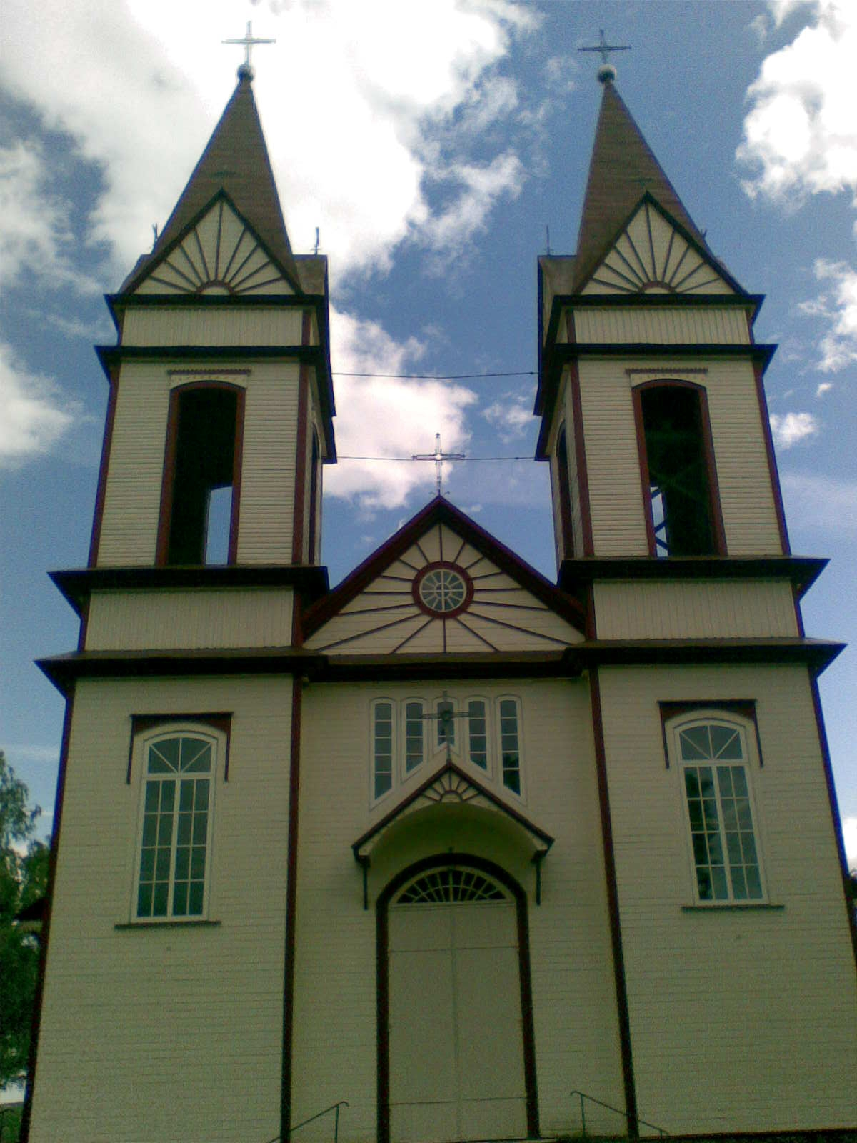 Aukštadvaris church - front.